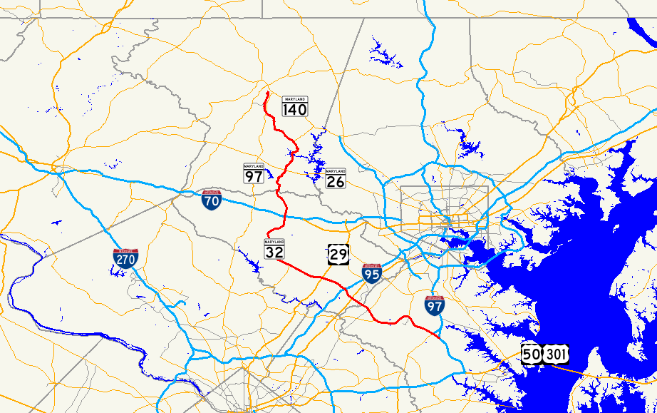 Map of Maryland Route 32